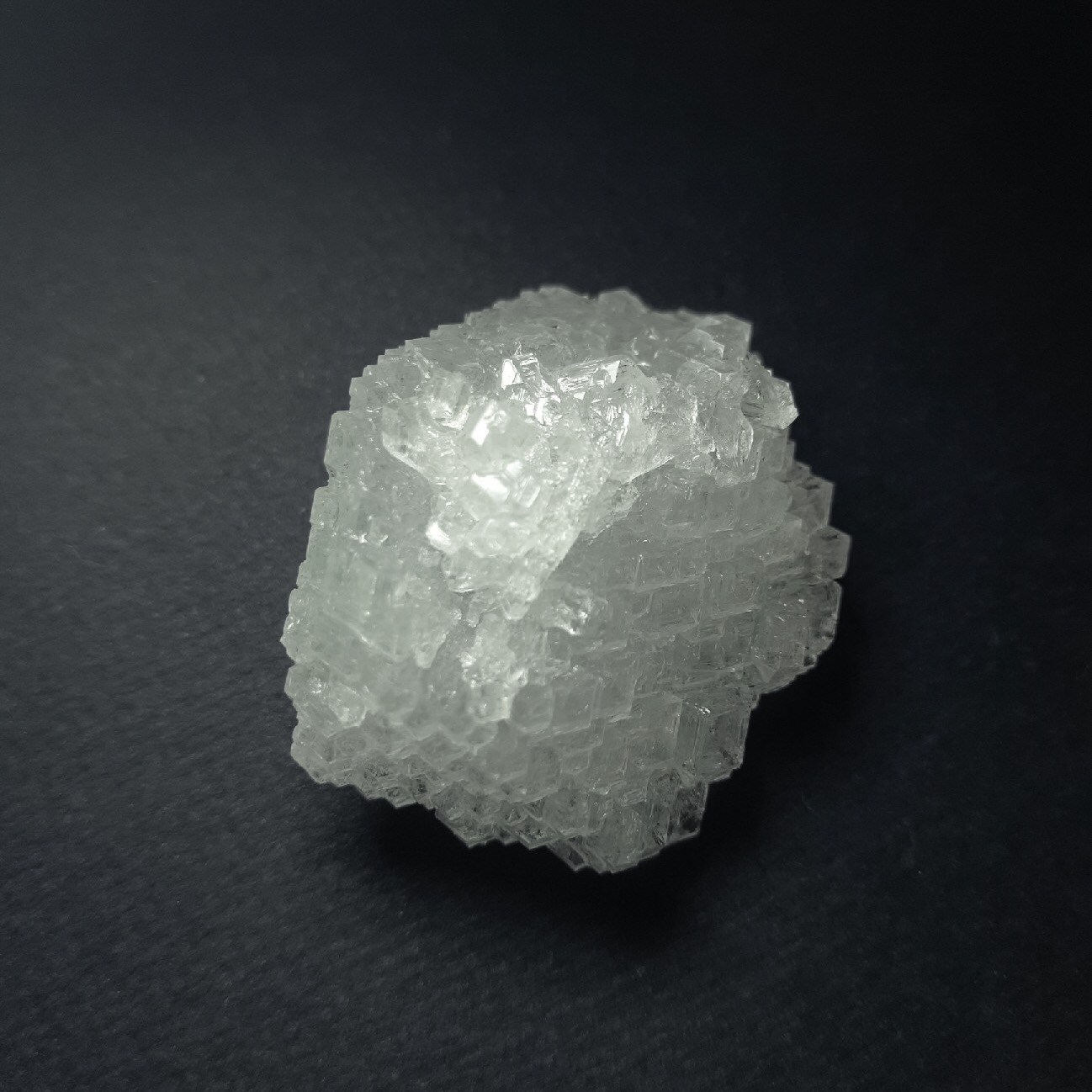 urotropin polycrystal